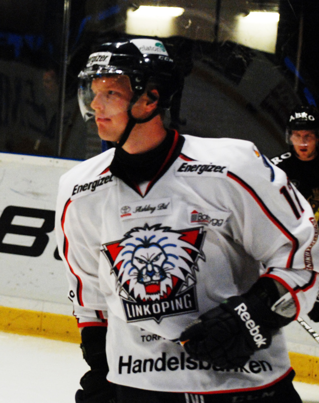 Ice hockey player Carl Söderberg.